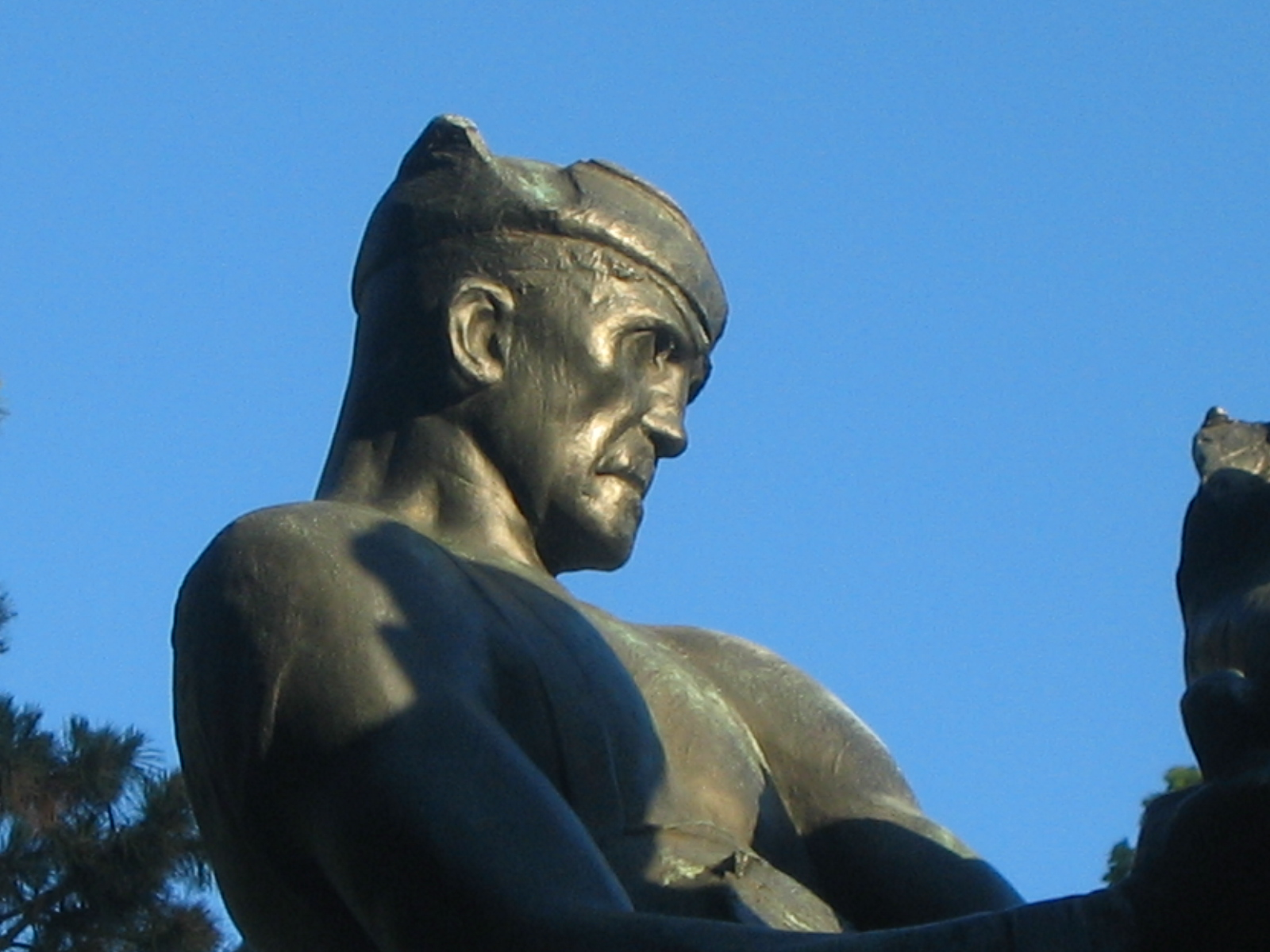 Detail from Bronze Statue of River Drivers, Pierce Memorial, Bangor, Maine. Charles Tefft, sculptor